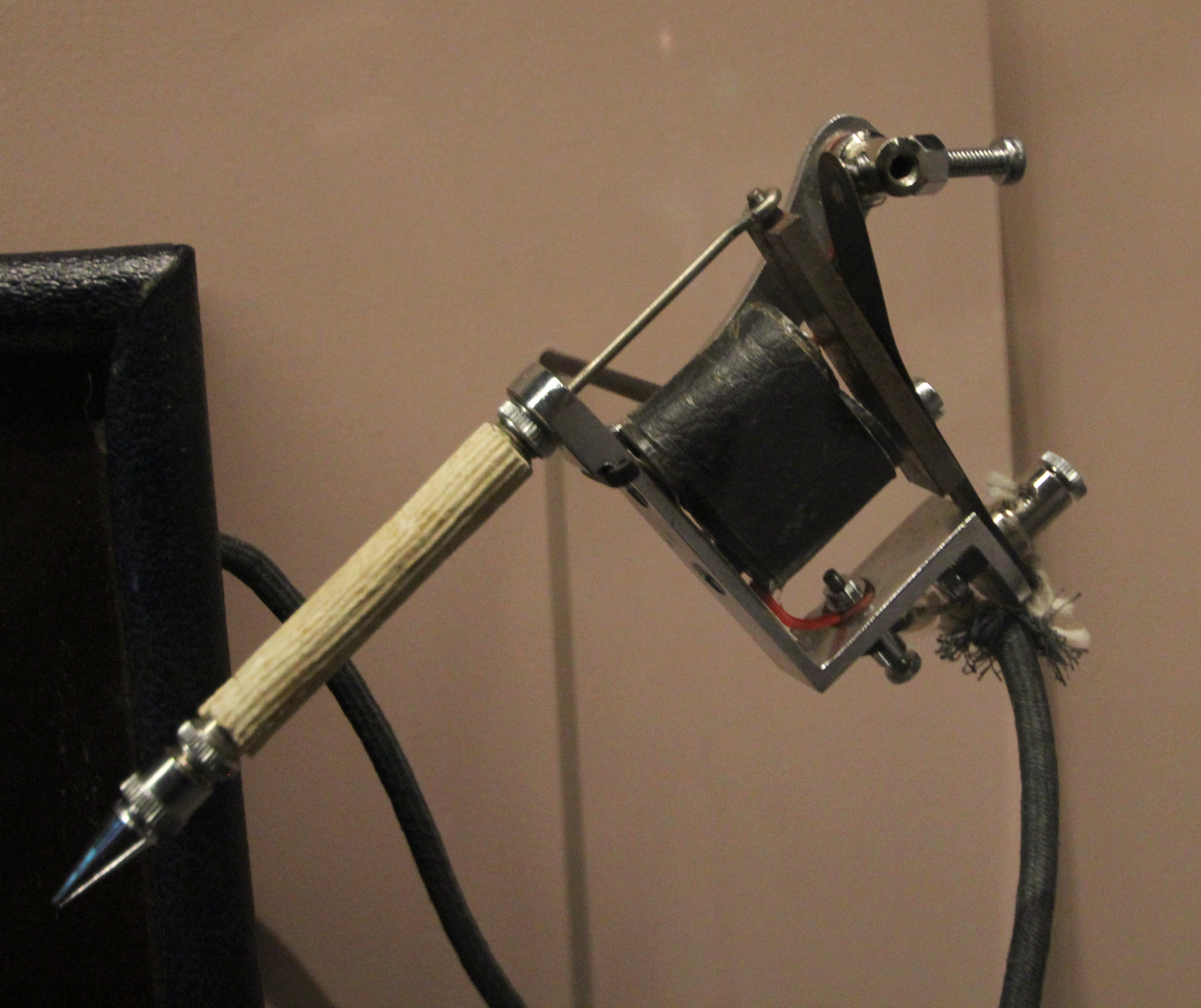 View of the exhibition "Tattooists, tattooed" at the Quai Branly Museum in Paris, France.